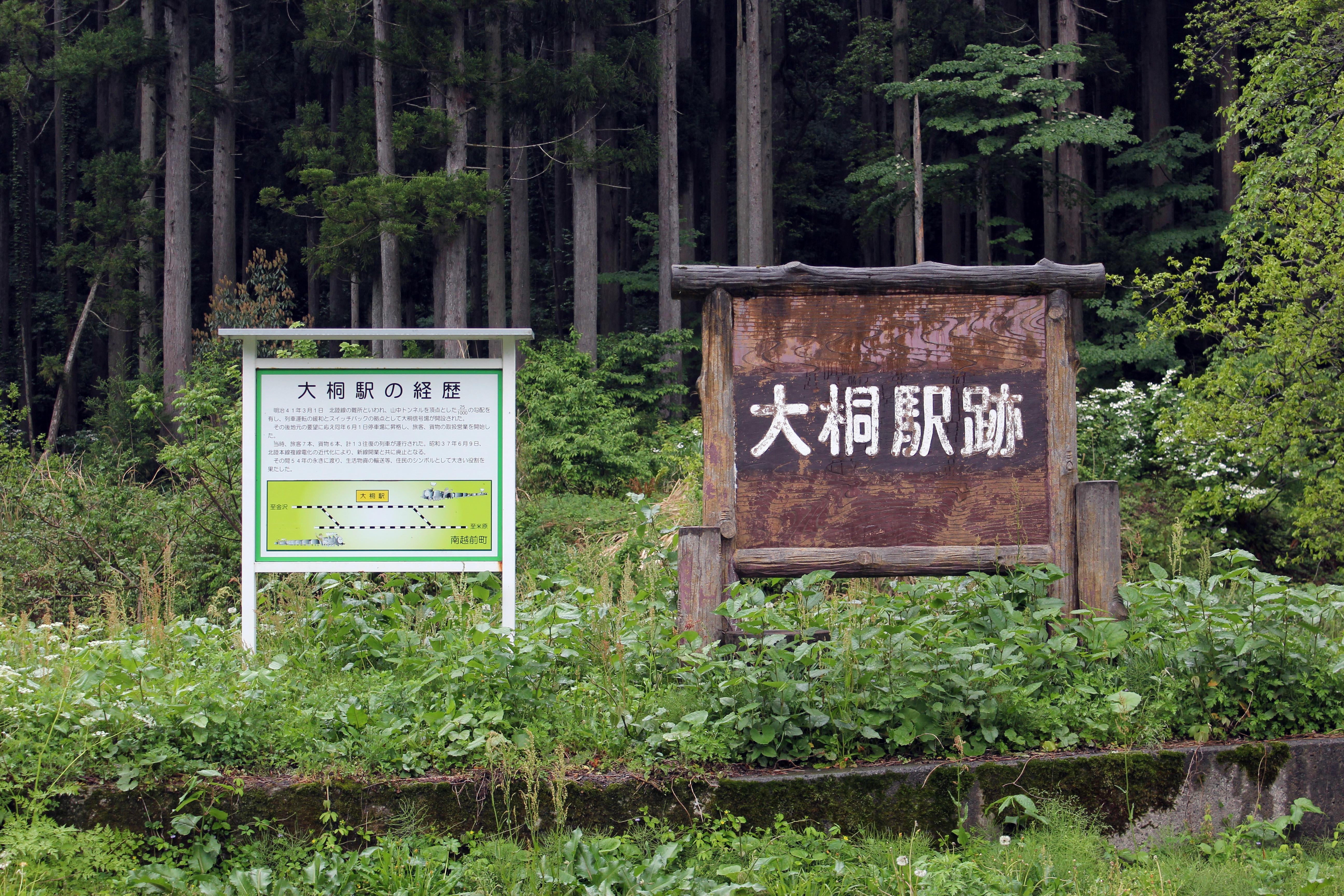 Site of JNR Hokuriku Main Line Ogiri Station